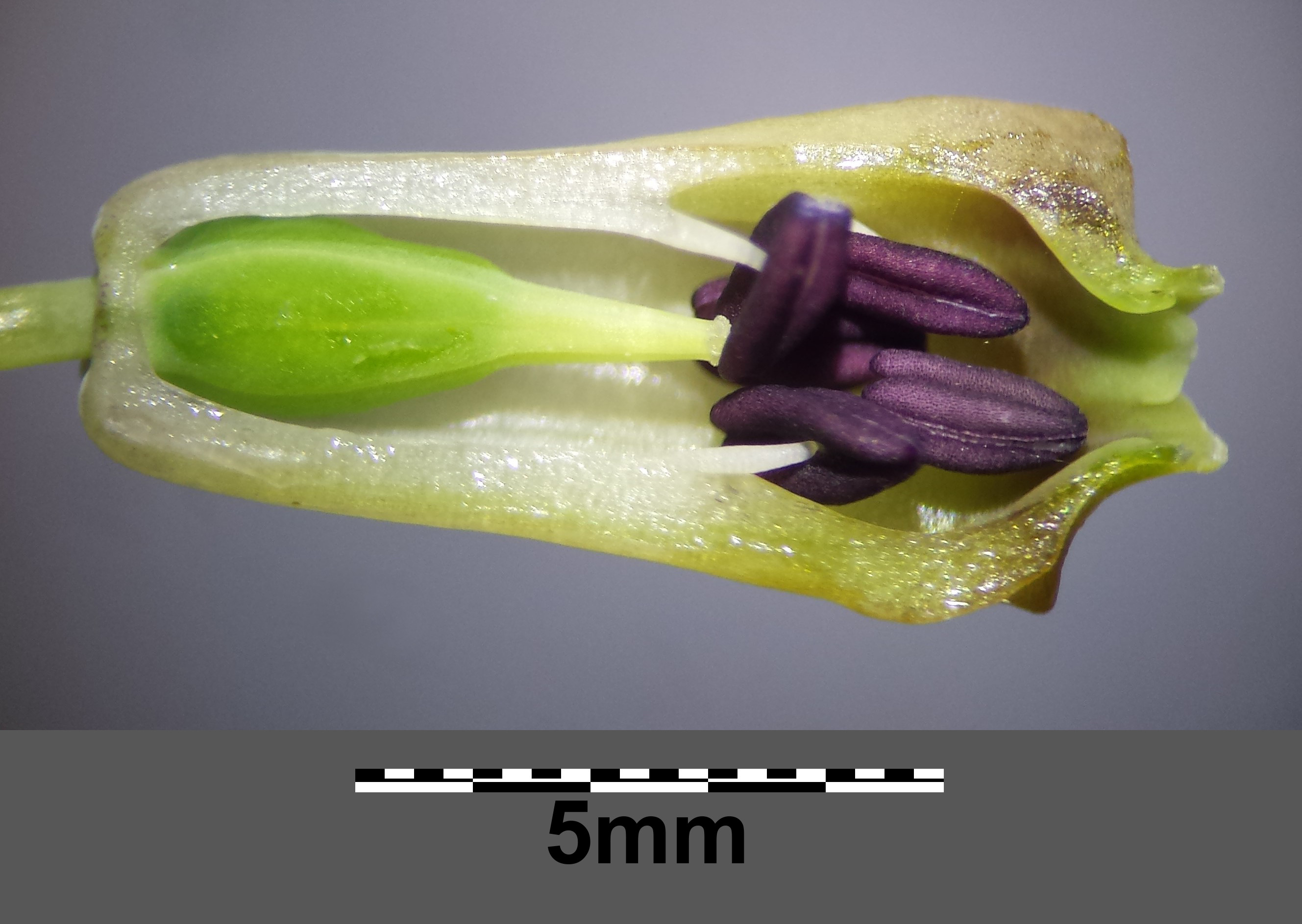 Fertile flower (opened) Taxonym: Muscari comosum ss Fischer et al. EfÖLS 2008 ISBN 978-3-85474-187-9 Location: Waldberg next to Niederkreuzstetten, district Mistelbach, Lower Austria - ca. 250 m a.s.l. Habitat: shrubbery